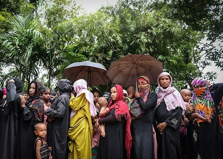 Rohingya displaced Muslims